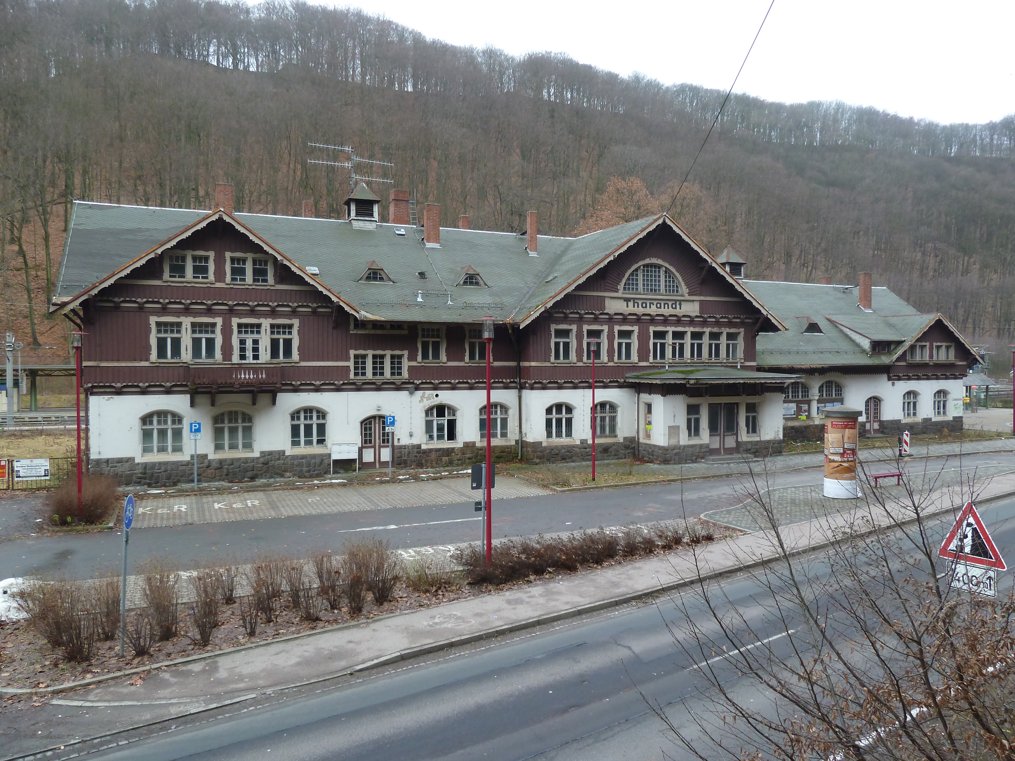 Tharandt Railway Station, Swiss style, 1907—1994. Conversion into a dormitory announced in 2013.